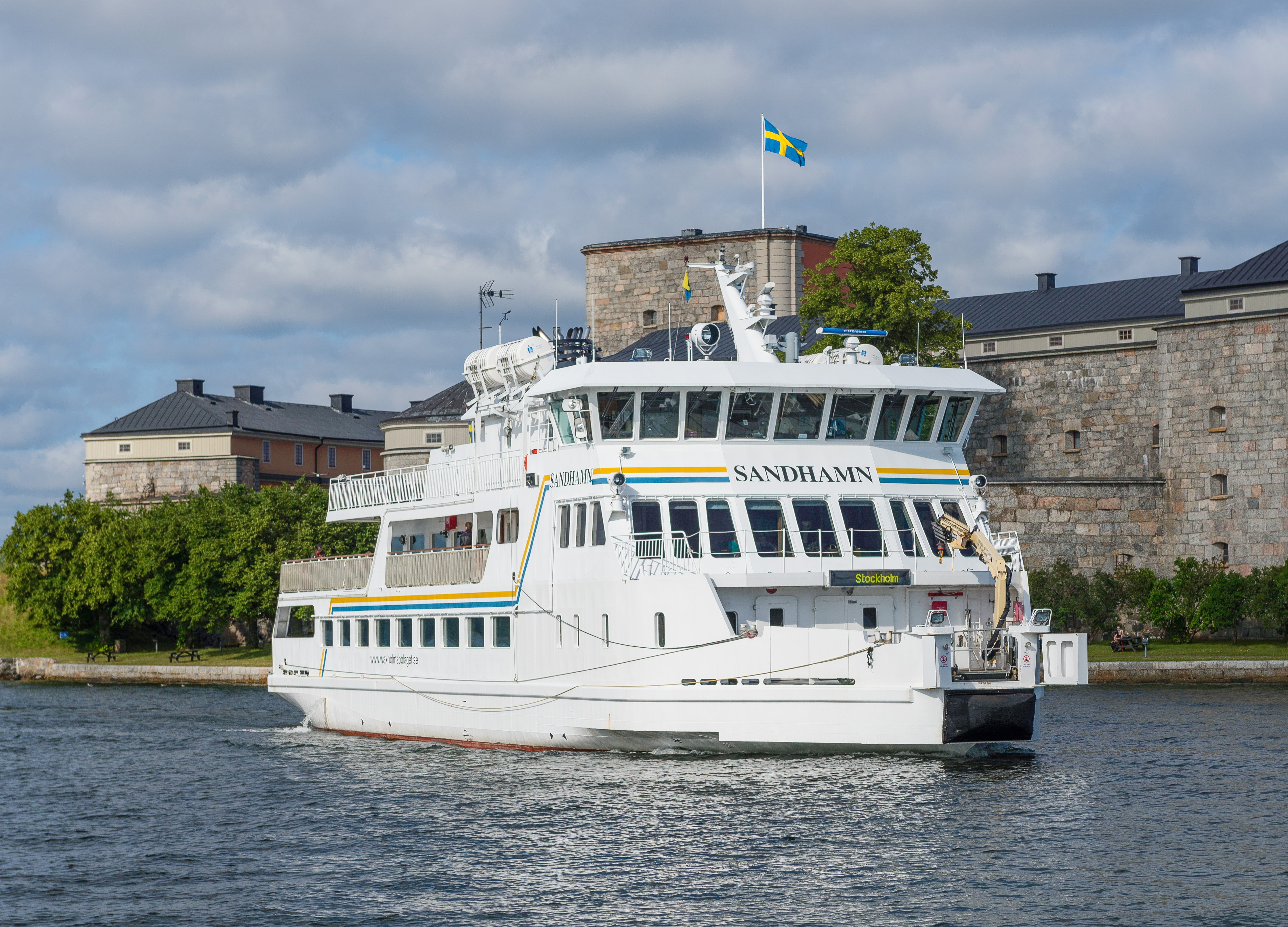 MS Sandhamn in front of Vaxholm castle. The ship is operated by Waxholmsbolaget, a shipping company that is owned by Stockholm county council and is responsible for the seaborne public transport in Stockholm archipelago and Stockholm harbour.